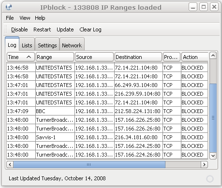 IPblock Log